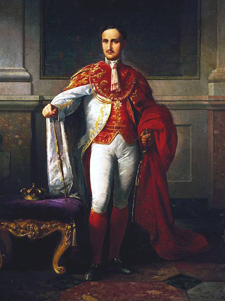 Portrait of Francis II of the Two Sicilies (1836-1894)